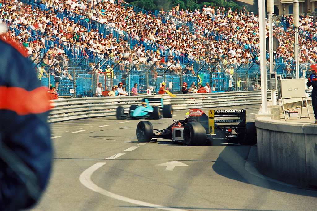 Andrea Chiesa (Fondmetal) spins in front of Karl Wendlinger (March) at the 1992 Monaco Grand Prix.